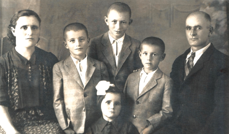 Metodija Andonov-Čento with his wife Vasilka, his sons Ilija, Andon and Vladimir and his daughter Marija